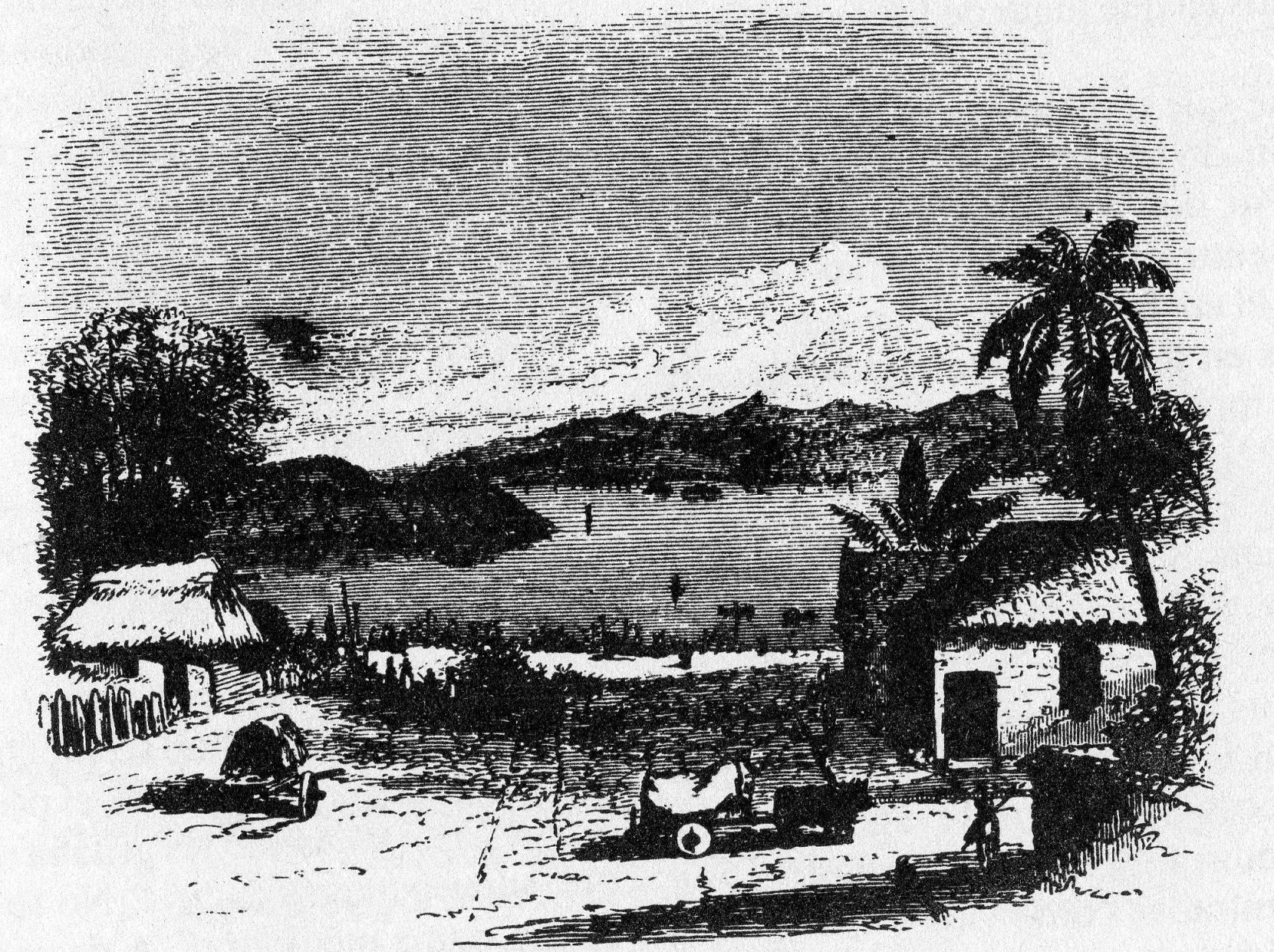 Managua in 1849. Look from the beach on the Lake Managua. Scetch from Ephraim George Squier